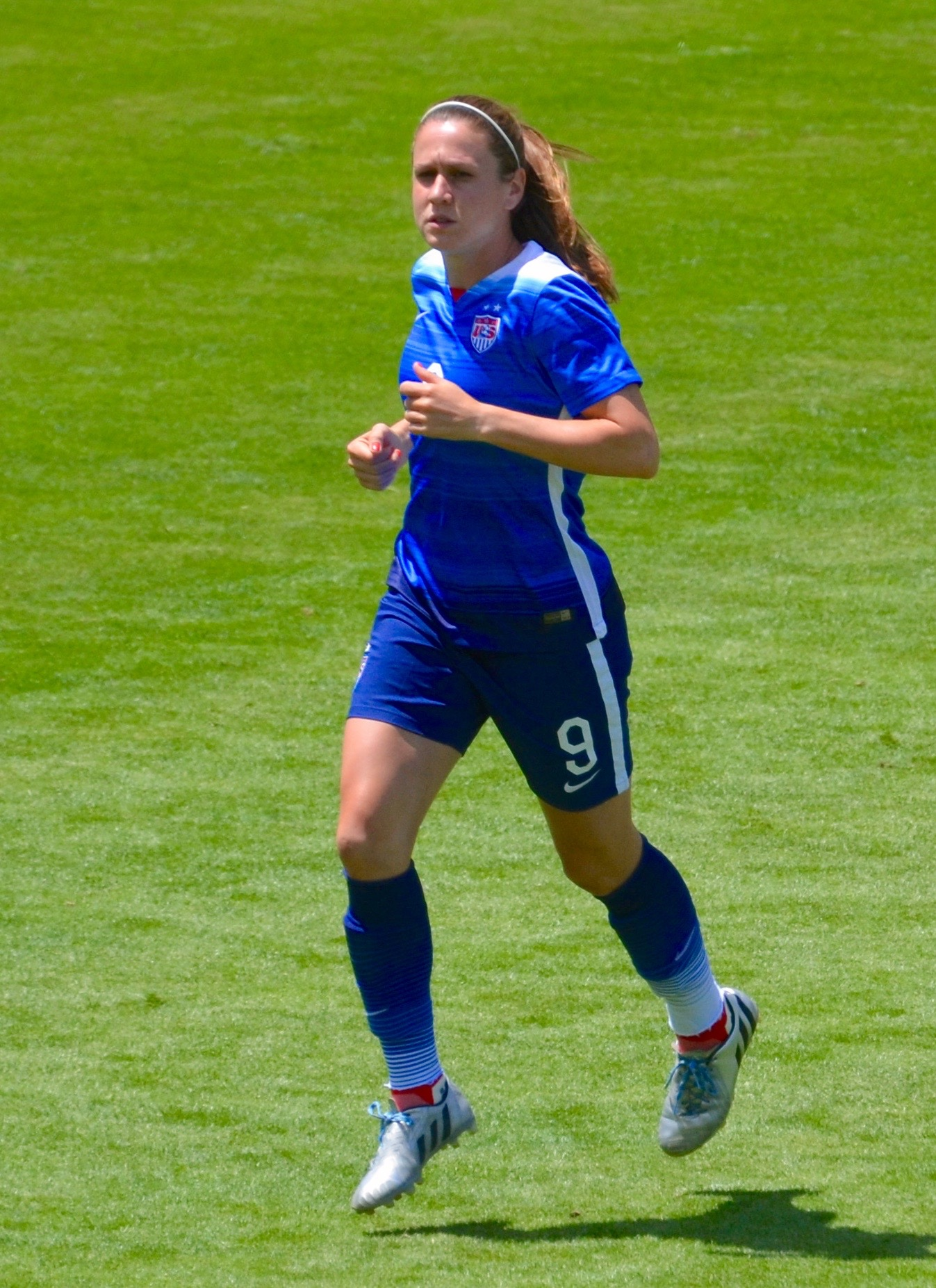 Heather O'Reilly playing for the US Women's National Team in San Jose, California on 10 May 2015.